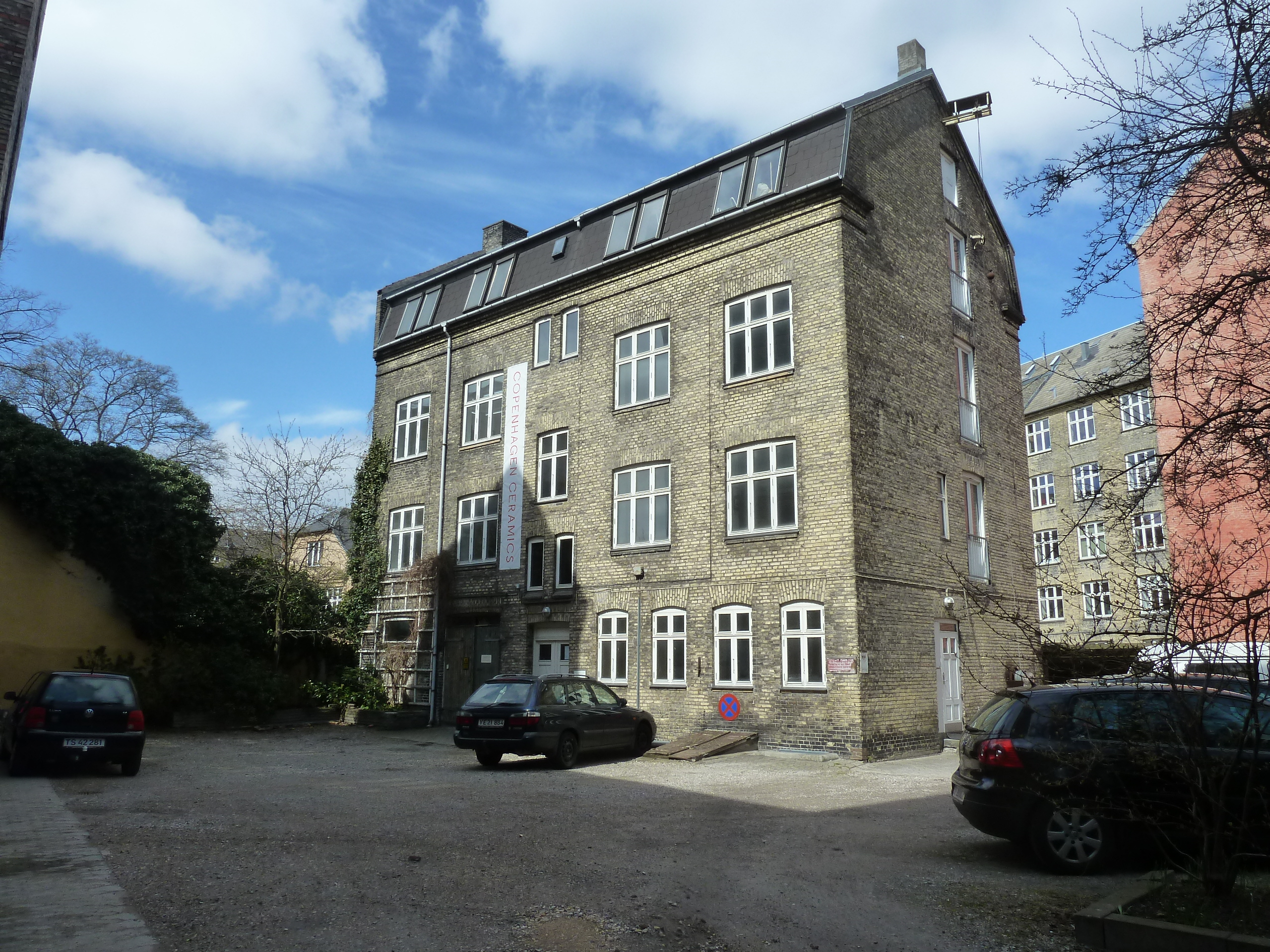 The Building where the gallery Copenhagen Ceramics in Smallegade in the Frederiksberg, district of Copenhagen, Denmark is based